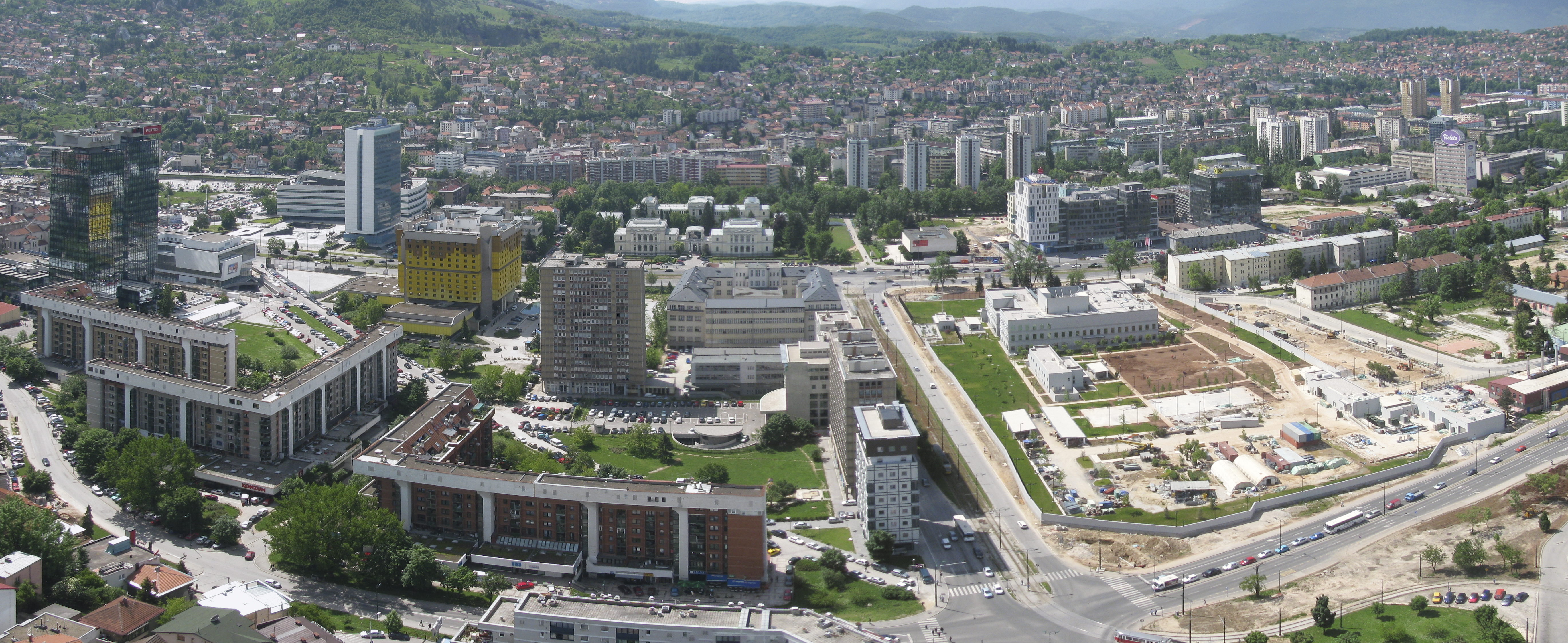 Marijin dvor, Sarajevo panorama 2010